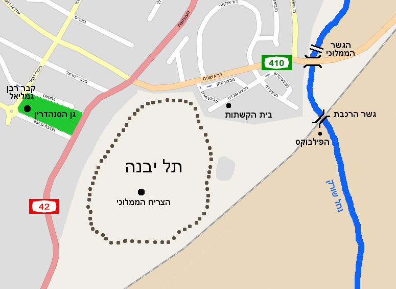 Map of Yavne